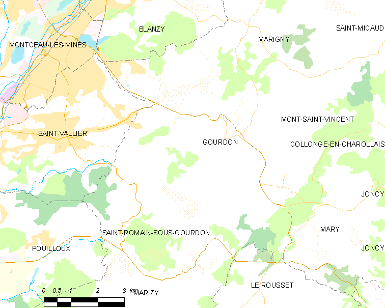 Map of French municipality